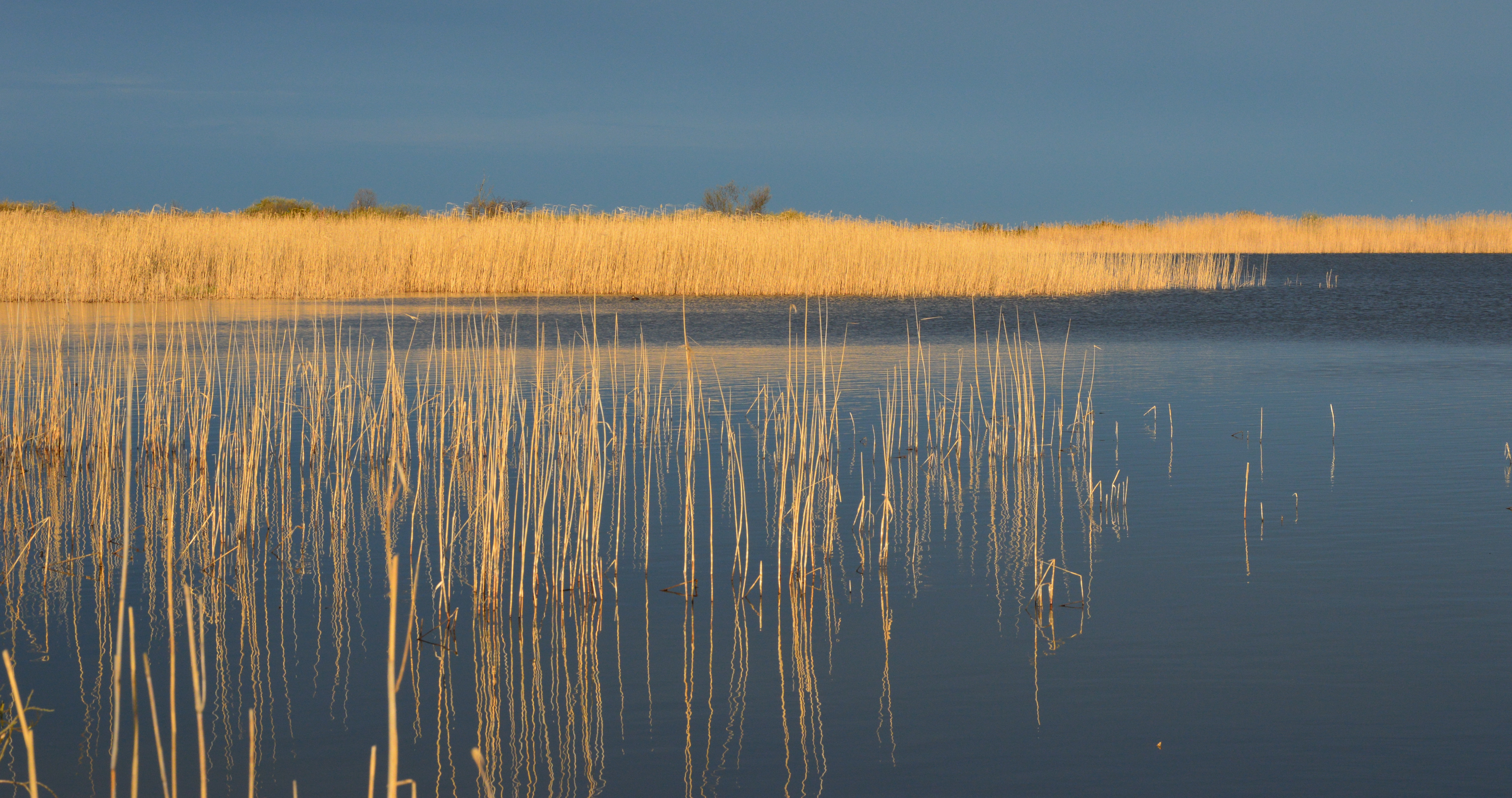 Early morning in Inahamne, the biggest lake in the island of Osmussaar, Estonia.